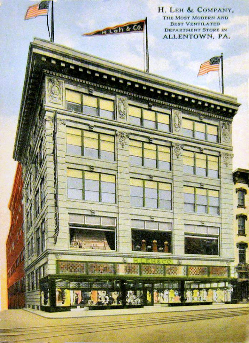 1910 - H Leh and Company Postcard